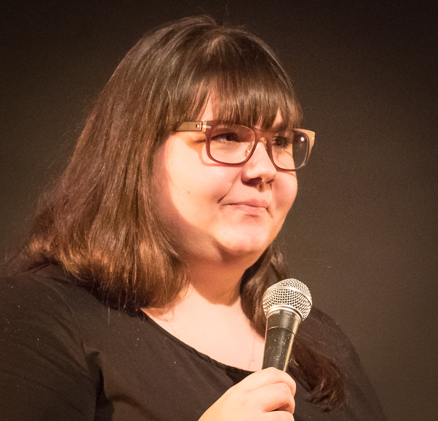 Sofie Hagen on the stage at Late Night Fredag on Parkteatret. The comedy event took place on 27. January 2017 in Oslo as part of Crap Comedy festival 2017. Lineup: Sofie Hagen (comedian) Dag Sørås (comedian) Martin Beyer-Olsen (comedian) Ahmed Mamow (comedian) Christoffer Schjelderup (comedian) Atle Antonsen (comedian)